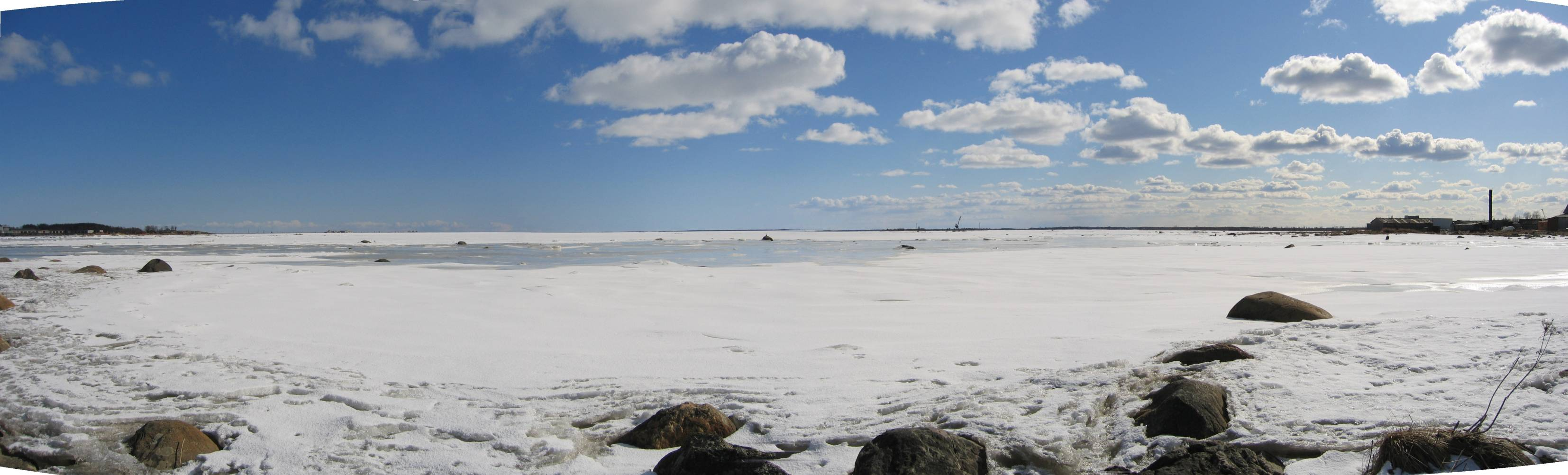 Coastline of the White Sea at Belomorsk in April 2007.